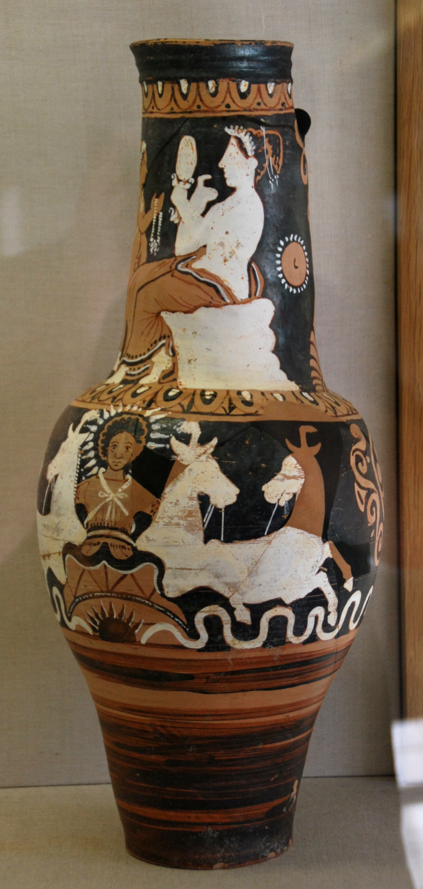 Faliscan red-figure flagon; belly image: Sun god with chariot coming out of the sea, neck image: Eros helps Aphrodite with her toilette; about 330/300 BC; now Antikensammlung Würzburg, inventory number H 5367.